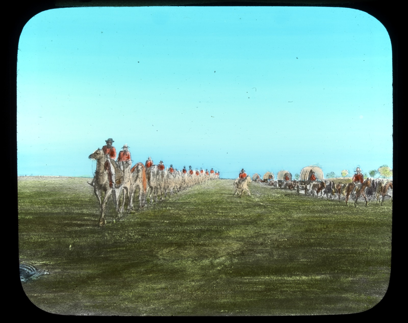 Illustration by Ludwig Becker, member of the Burke and Wills Expedition